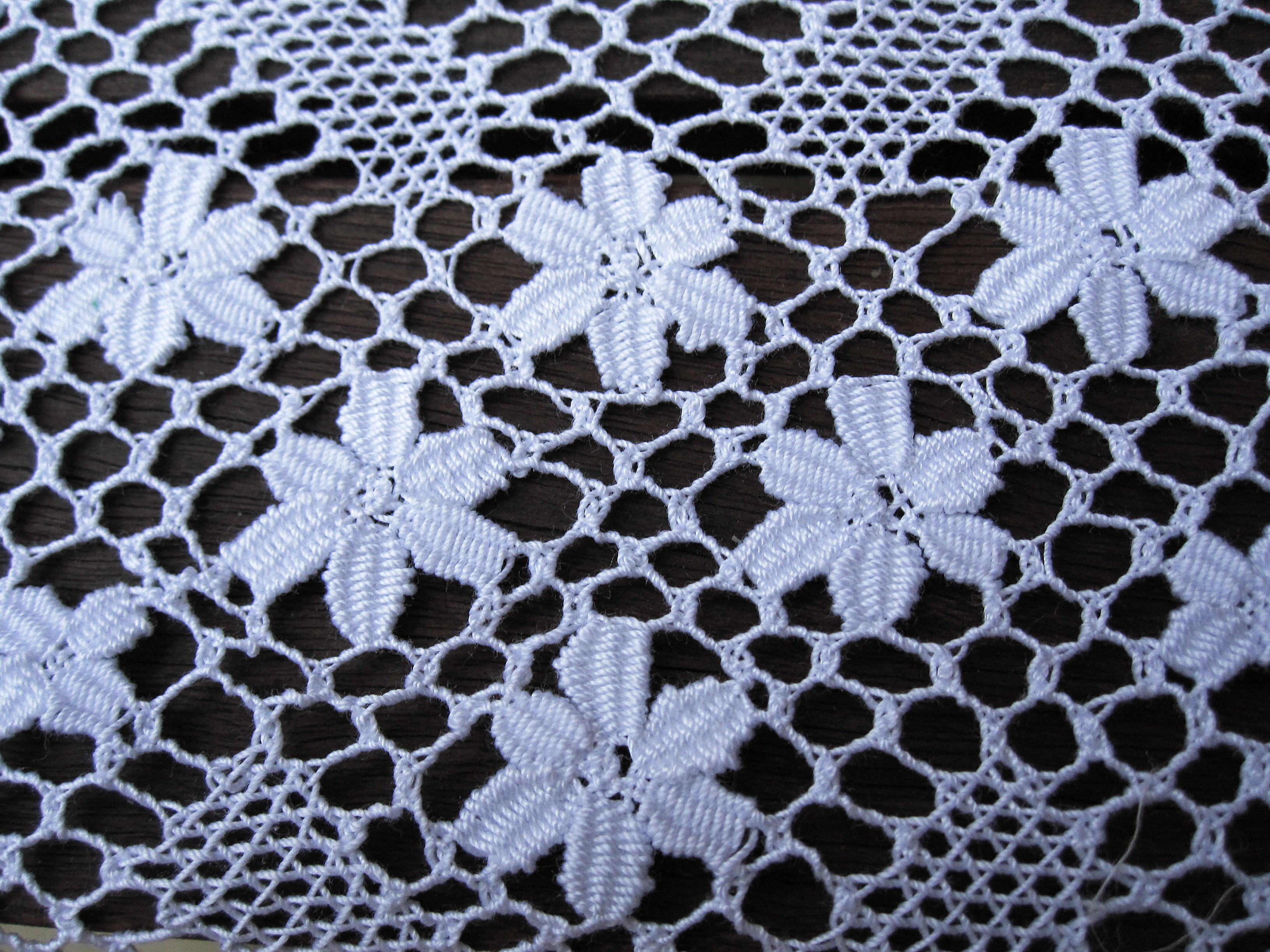 Bobbin lace from Moca, Puerto Rico. Detail with Bellis perennis.